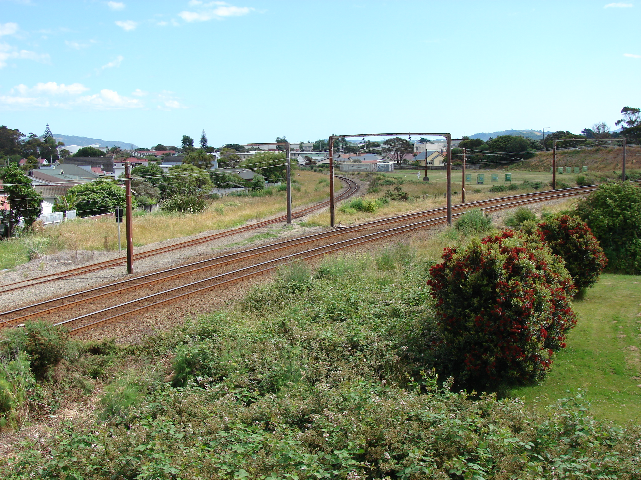 The start of the Gracefield Branch, just south of Woburn station. Photographed by Matthew25187 on 2007-12-22.